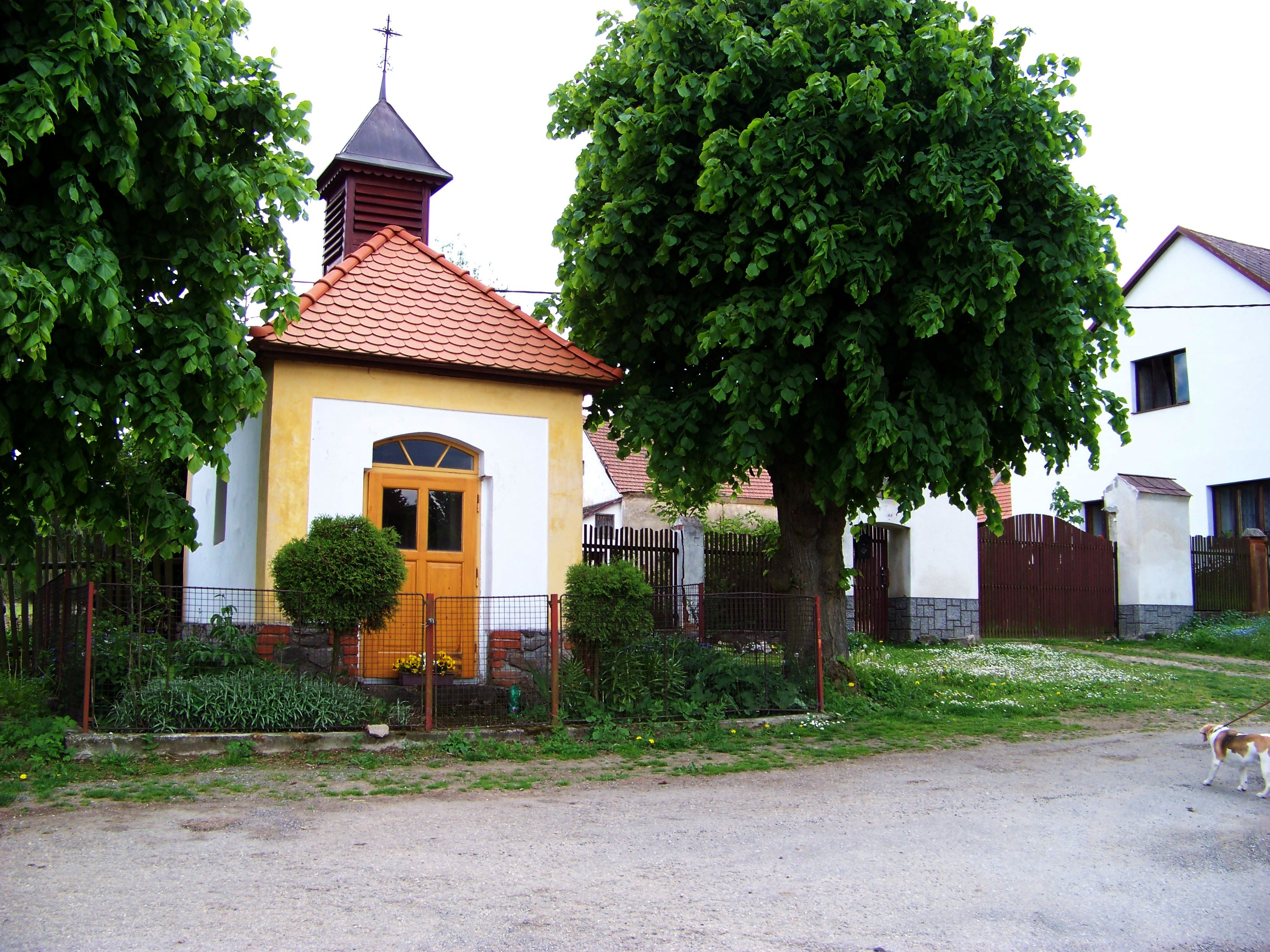 Střezimíř-Bonkovice, Benešov District, Central Bohemian Region, the Czech Republic. A chapel.